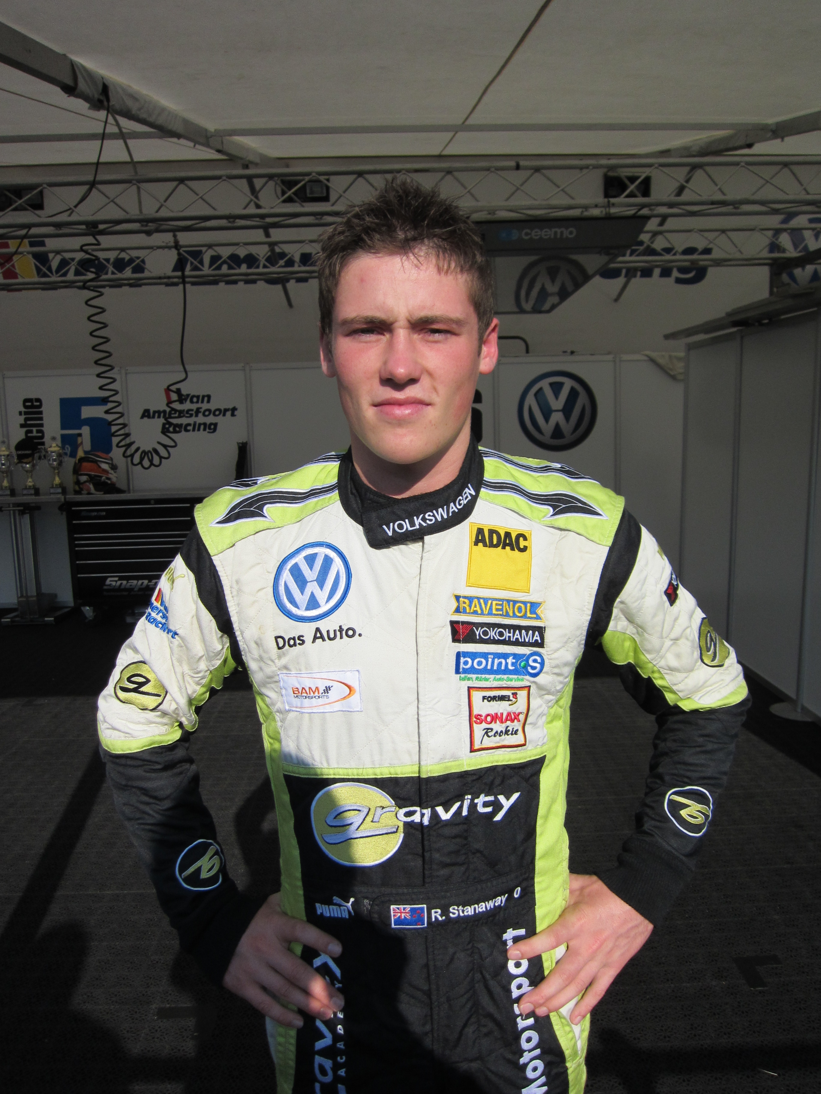 Richie Stanaway: the photo was taken during 2011's ADAC GT Masters race weekend at Hockenheim